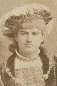 Welsh tenor Henry Bracy dressed as the role of Hilarion from Gilbert and Sullivan's Princess Ida.